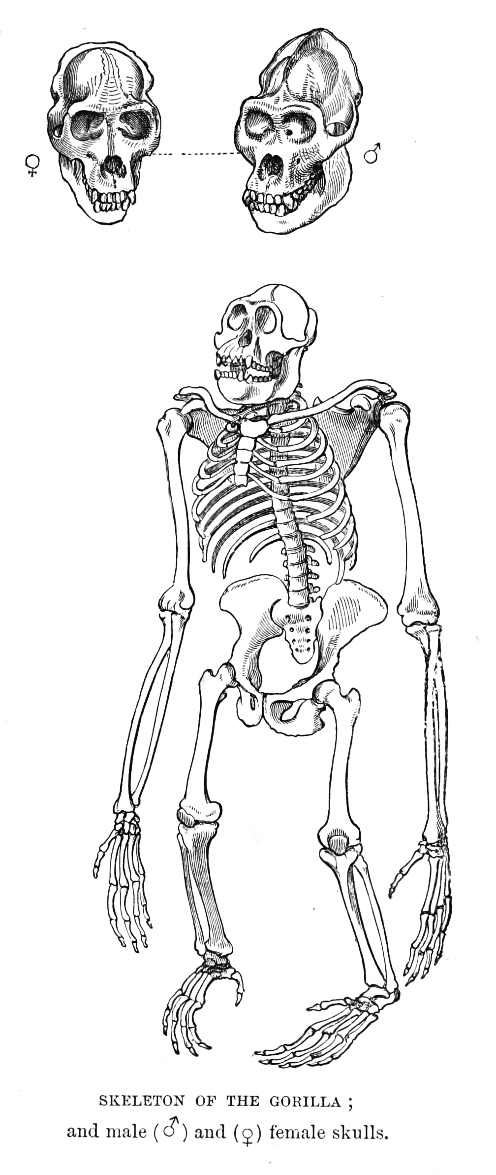 Skeleton of Gorilla